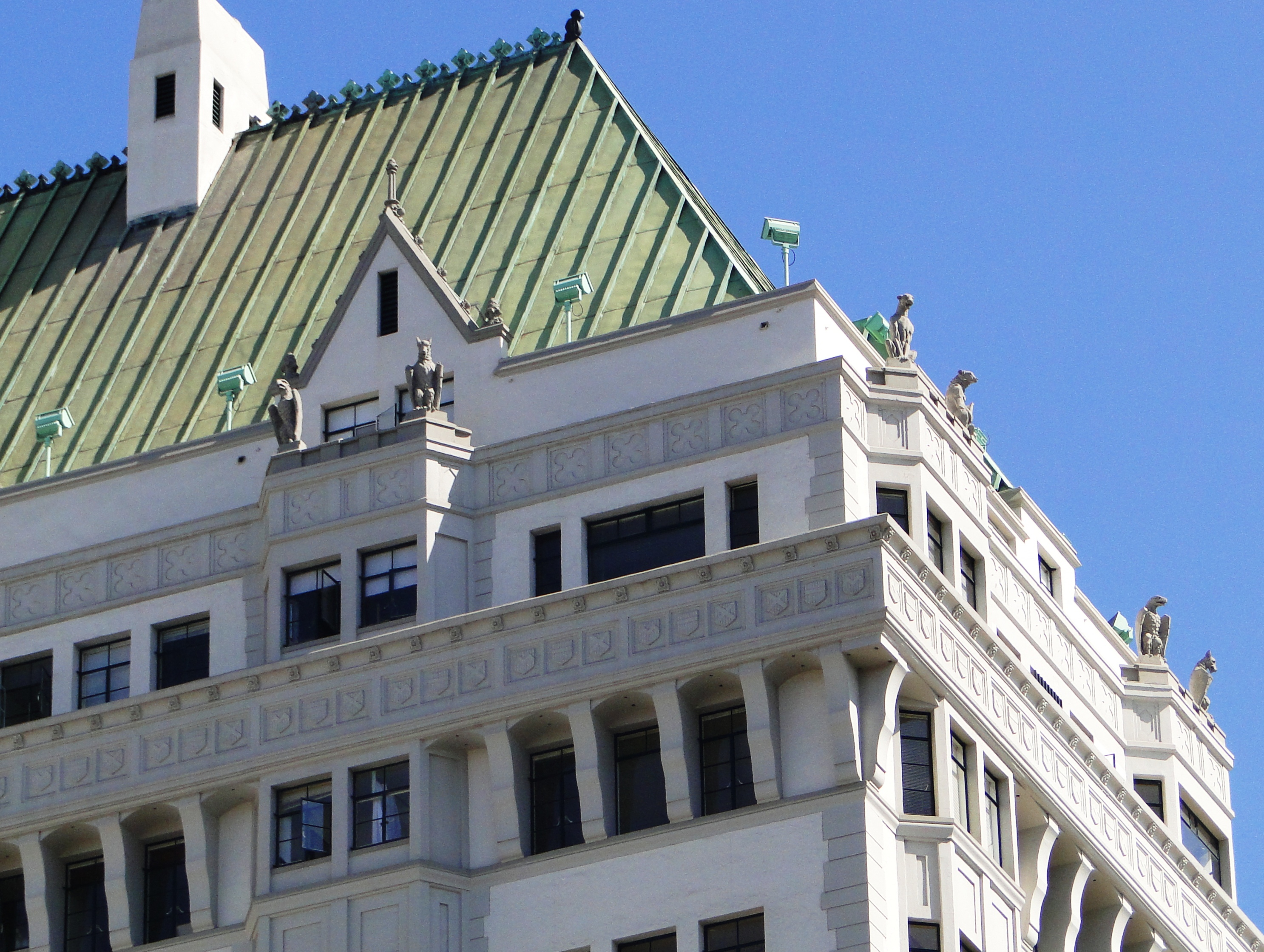 Gargoyles atop the Villa Riviera in Long Beach, California